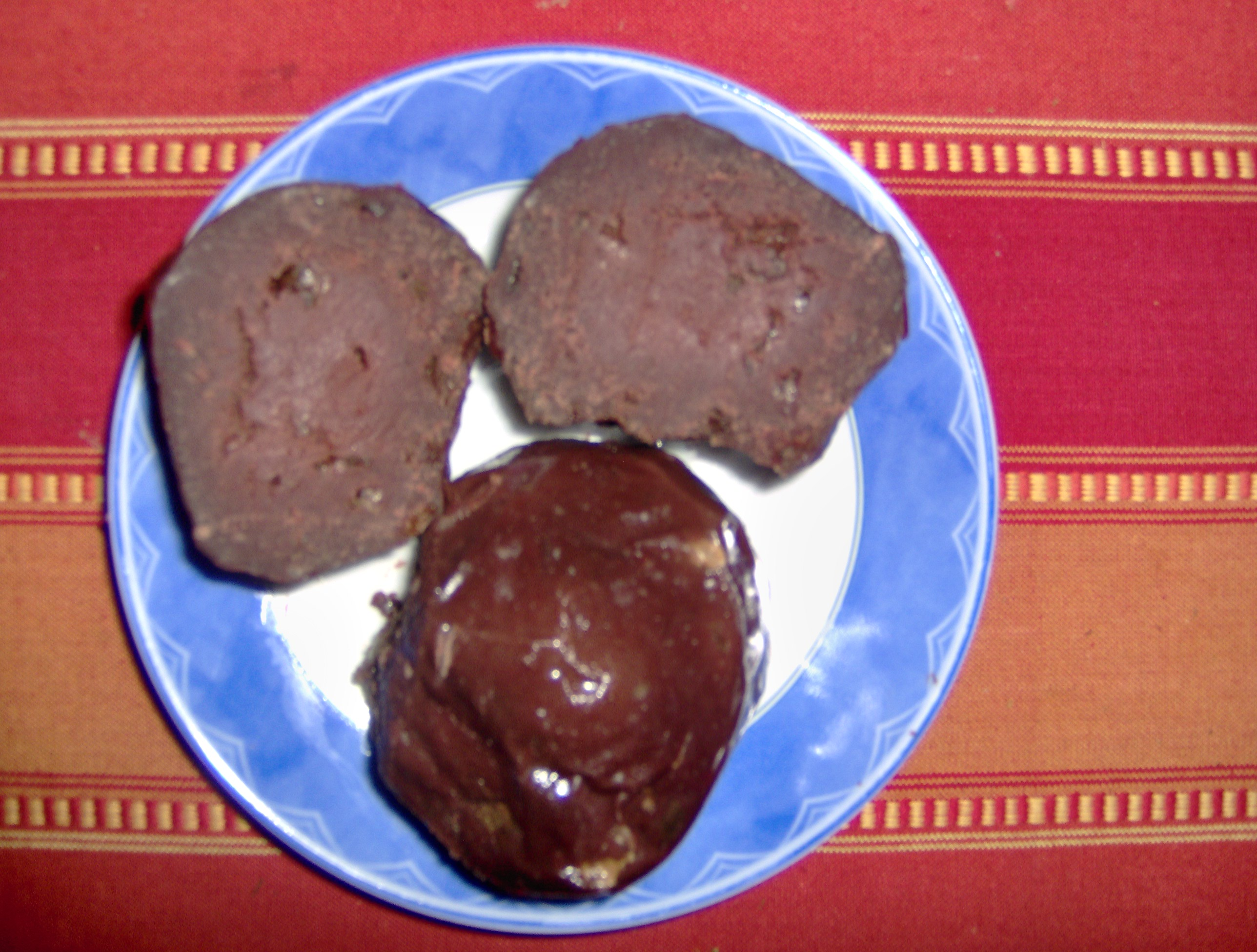 Tollatsch